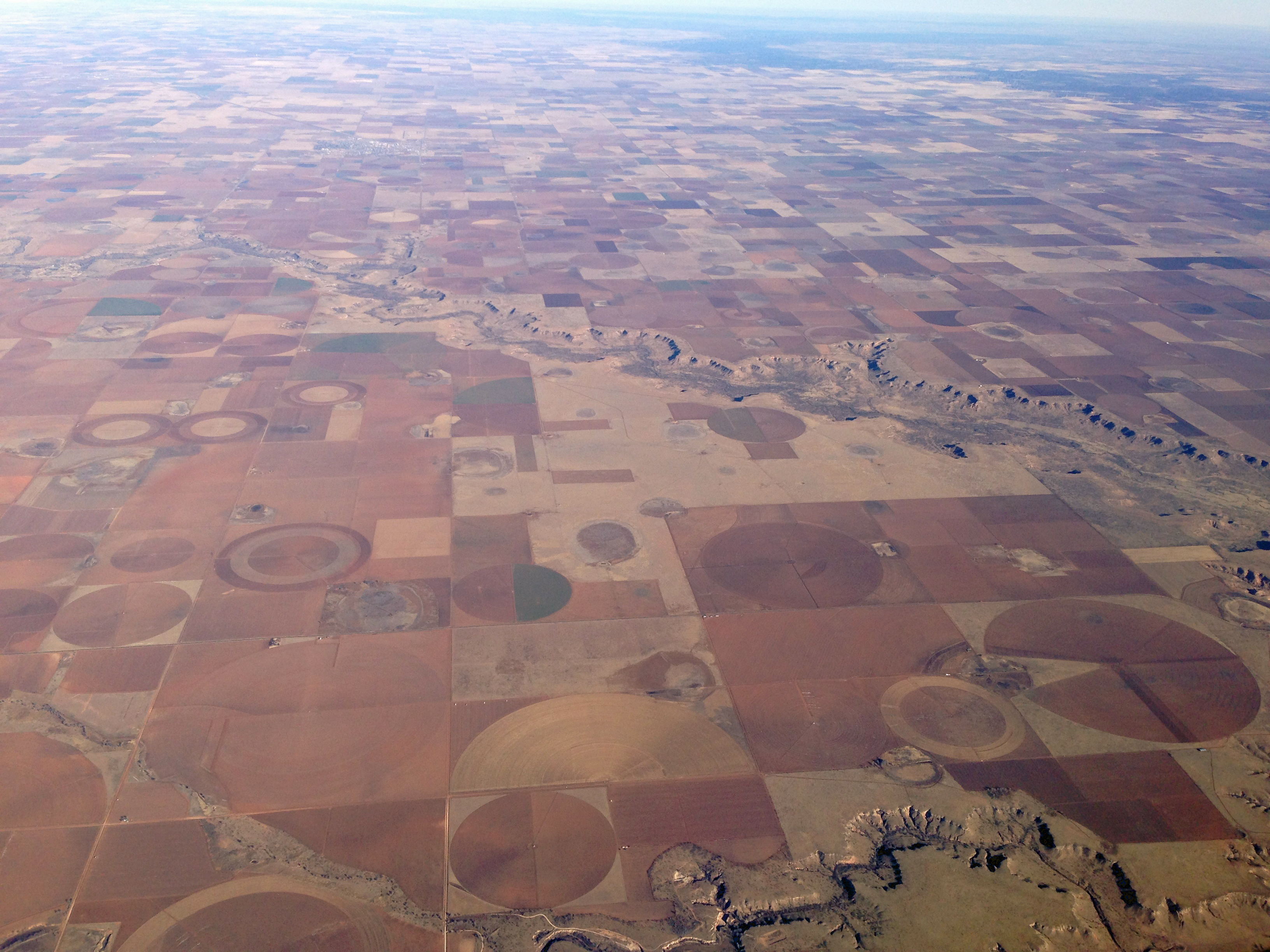 The eastern side of the Llano Estacado in Crosby and Floyd counties in West Texas viewed from aboard an American Airlines flight from Lubbock International Airport to Dallas-Forth Worth International Airport.